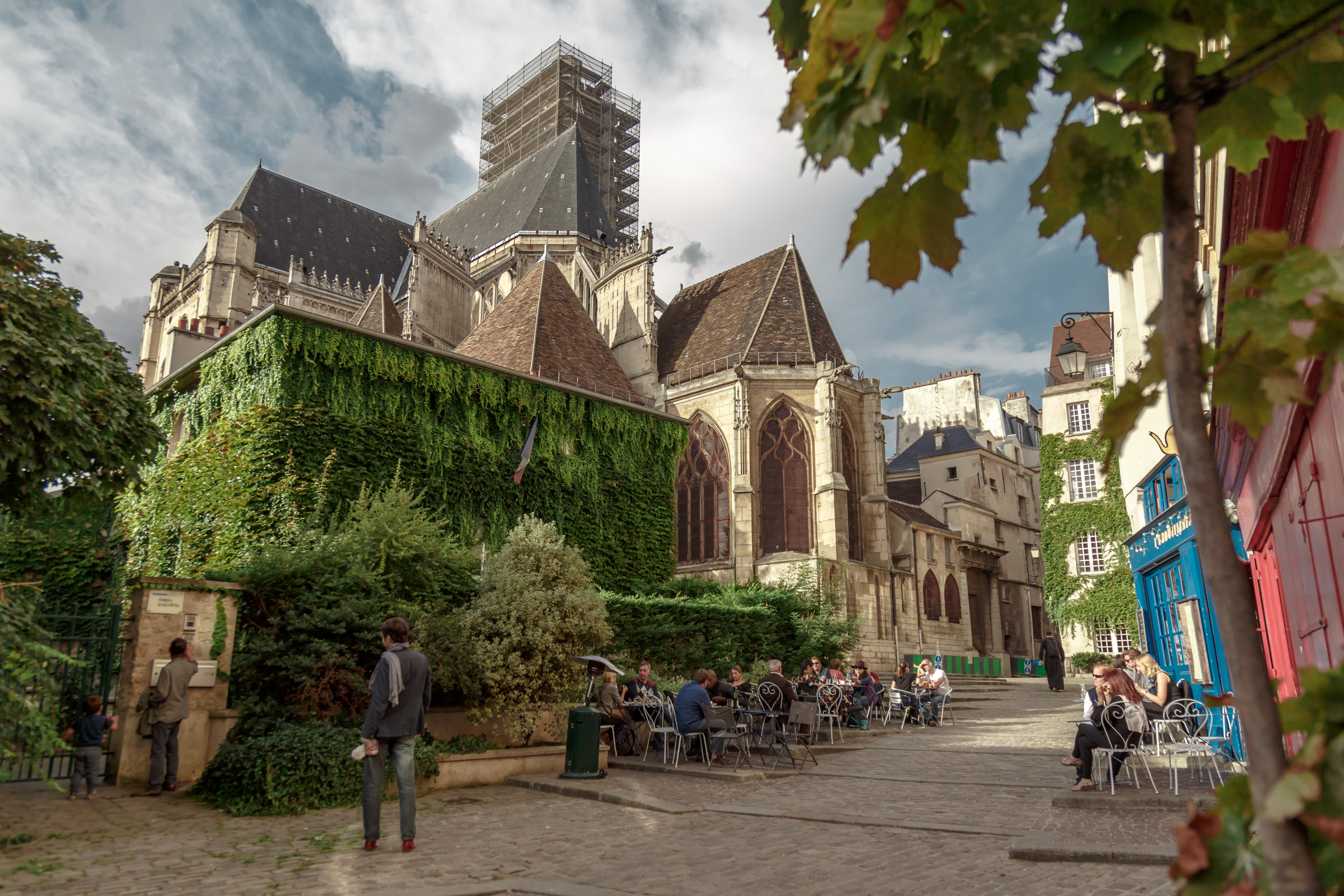 Just another backstreet cathedral in St Gervais, Paris, France, September 2016. Photo: John Gillespie.